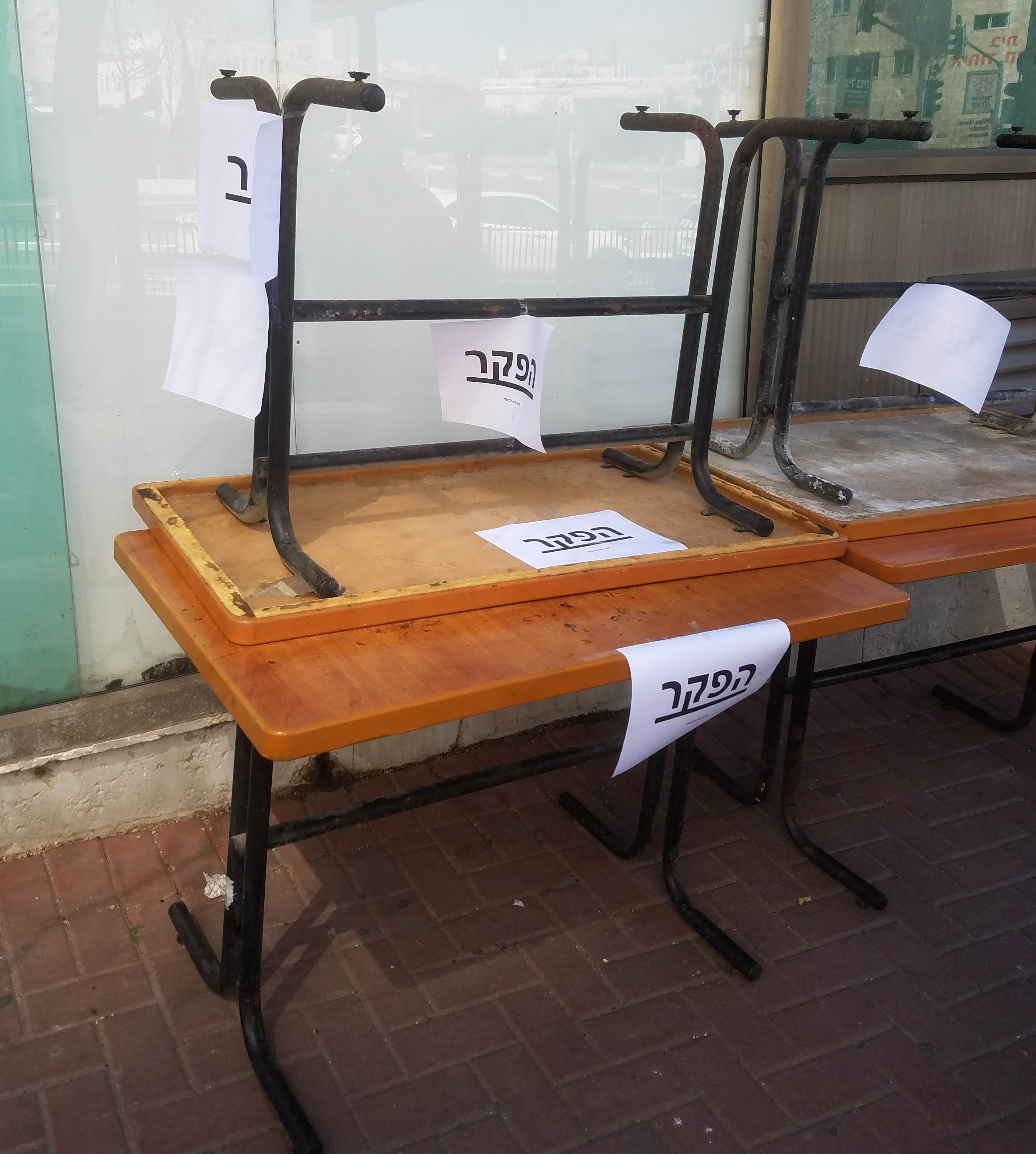 Hebrew sign in Jerusalem declaring the tables as "Hefker" (anybody can take them)